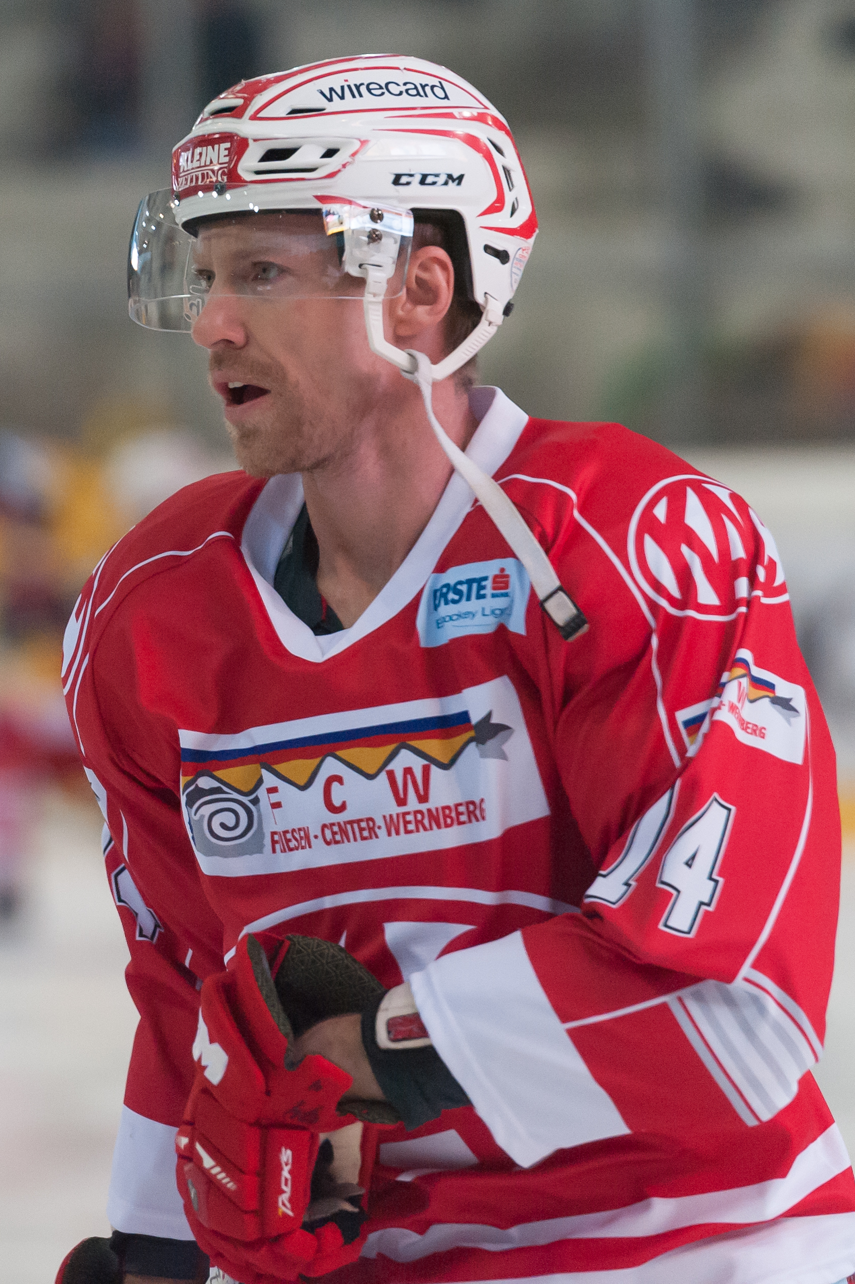 EBEL Vienna Capitals vs EC-KAC 2016-01-03